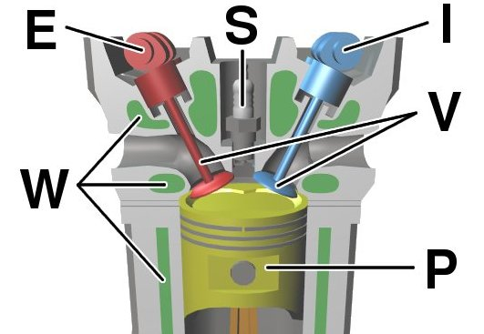 Labeled diagram of a four-stroke DOHC engine. C – crankshaft. E – exhaust camshaft. I – inlet camshaft. P – piston. R – connecting rod. S – spark plug. V – valves. red: exhaust, blue: intake. W – cooling water jacket. gray structure – engine block.